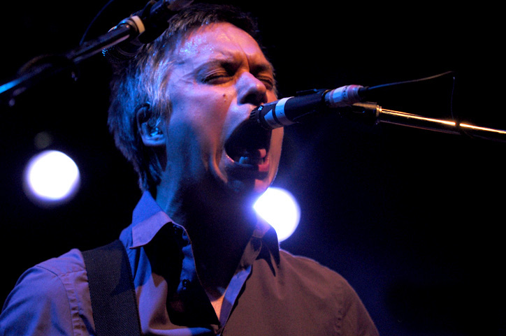 Oceansize @ Metropolis Fremantle (4/6/2009)